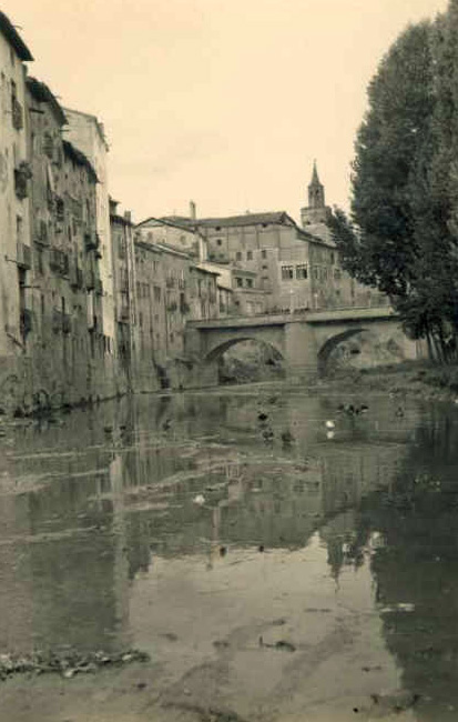 panoramic view of Vero river, from Barbastro, Aragón, Spain